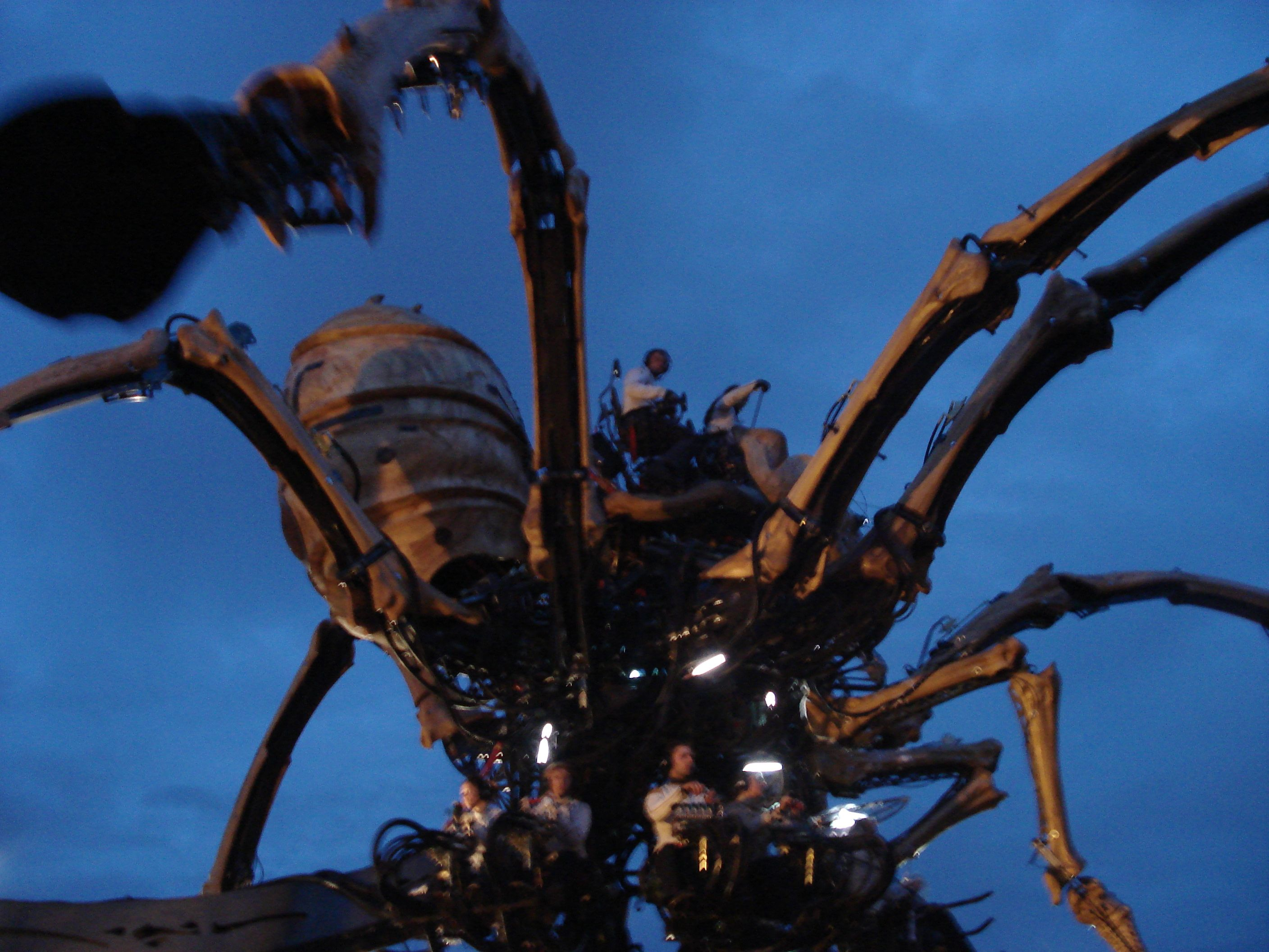 La Princesse, mechanical spider, Liverpool.